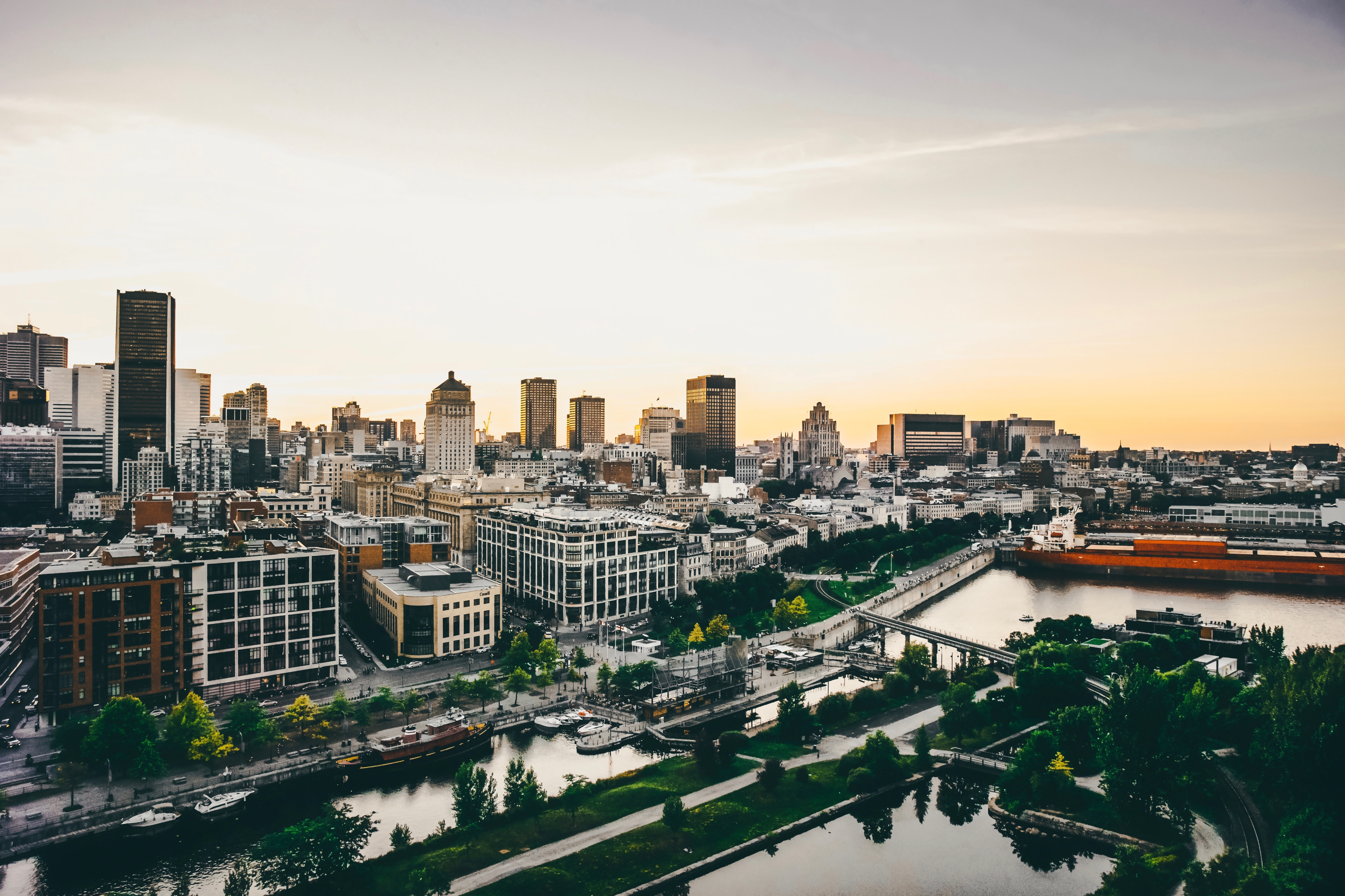 Montreal, Canada